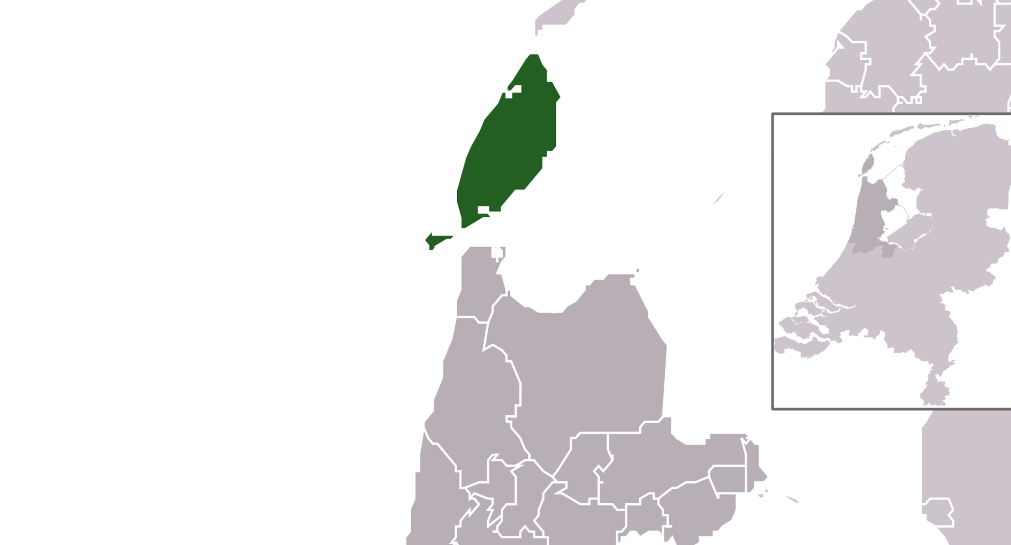 Location maps for the 441 municipalities in the Netherlands. Boundaries 1/1/2009 Automatically generated with script File name contains "Municipality code" (CBS-code) as specified in: [1] Created in svg using coordinate data derived from ESRI data published by Centraal Bureau voor de Statistiek, Voorburg/Heerlen. ([2]) Color coding and original design (slightly adpated by me) by user Mtcv (2006/2007) ([3]) This map is updated until the changes at January 1, 2014 The copyright holder of this file, Centraal Bureau voor de Statistiek, allows anyone to use it for any purpose, provided that the copyright holder is properly attributed. Redistribution, derivative work, commercial use, and all other use is permitted. Attribution: Centraal Bureau voor de Statistiek This work is free and may be used by anyone for any purpose. If you wish to use this content, you do not need to request permission as long as you follow any licensing requirements mentioned on this page.